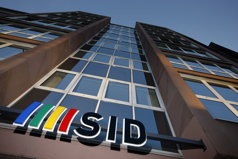 SID entrance